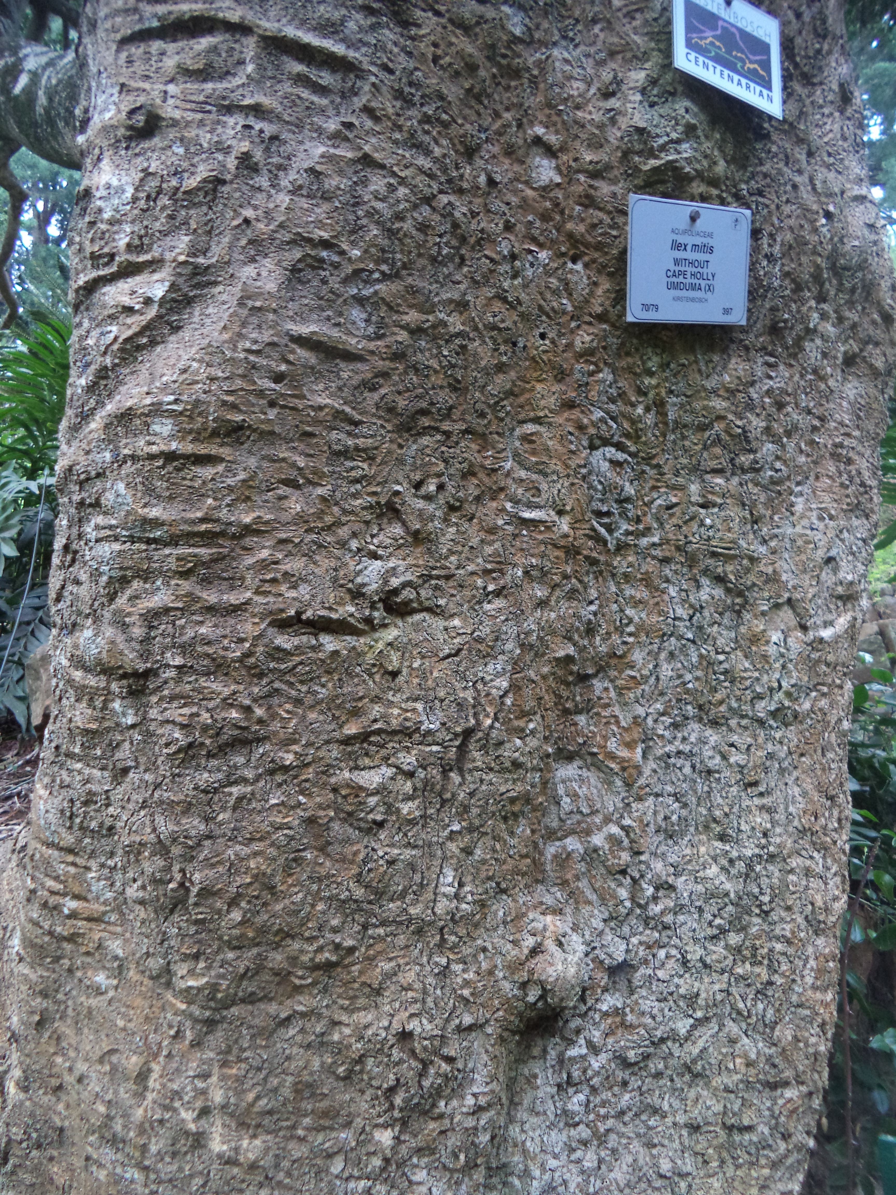 Bark of a Ilex mitis tree in the Kirstenbosch botanical garden